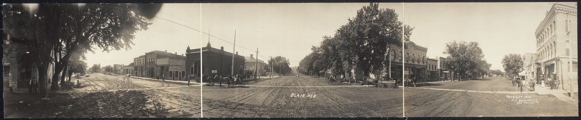 Panoramic view of the city of Blair, Nebraska